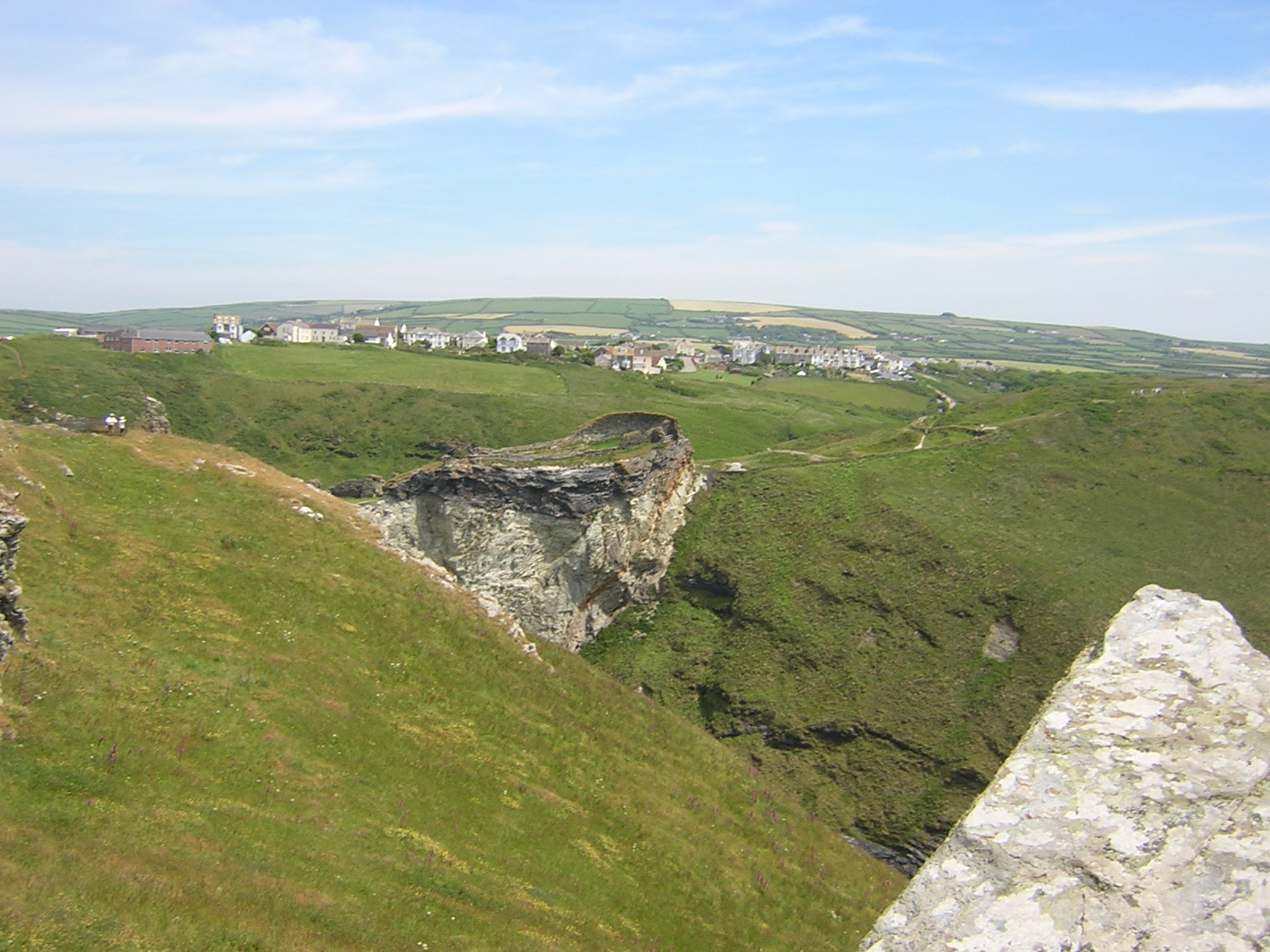 View from Tintagel Castle.